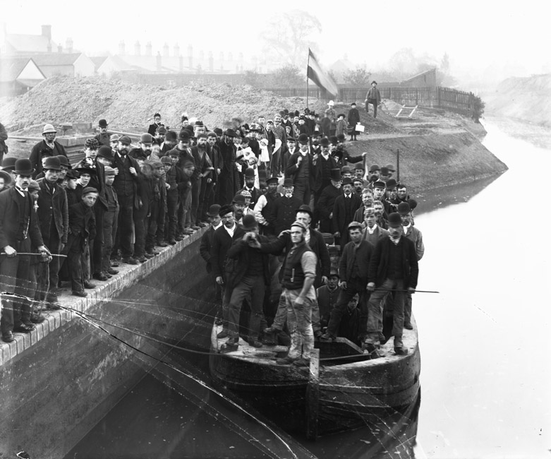 Barges on the River Lark, near Bury St Edmunds, Suffolk, England. Photograph courtesy of the Spanton-Jarman Collection, Bury St Edmunds Past and Present Society.